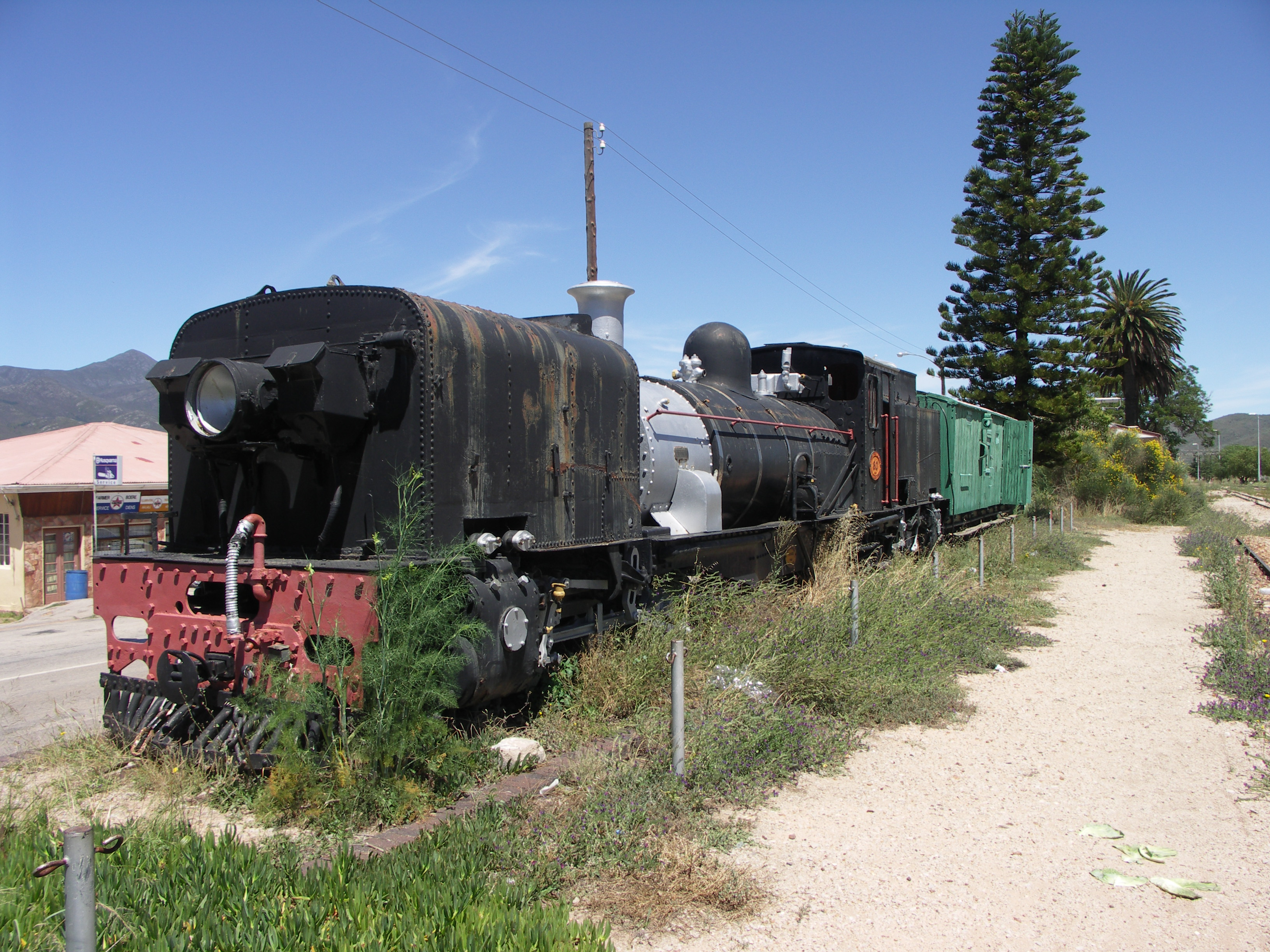 SAR NGG class 13 No. 80. Build in 1928 by Hanomag in Germany. Withdrawn from service in 1975. Weight: 62.9 ton, Purchase price R9507.98. Hanomag Nr. 10632. Placed on permanent display on 25 February 1977 in Joubertina, Eastern Cape, South Africa.